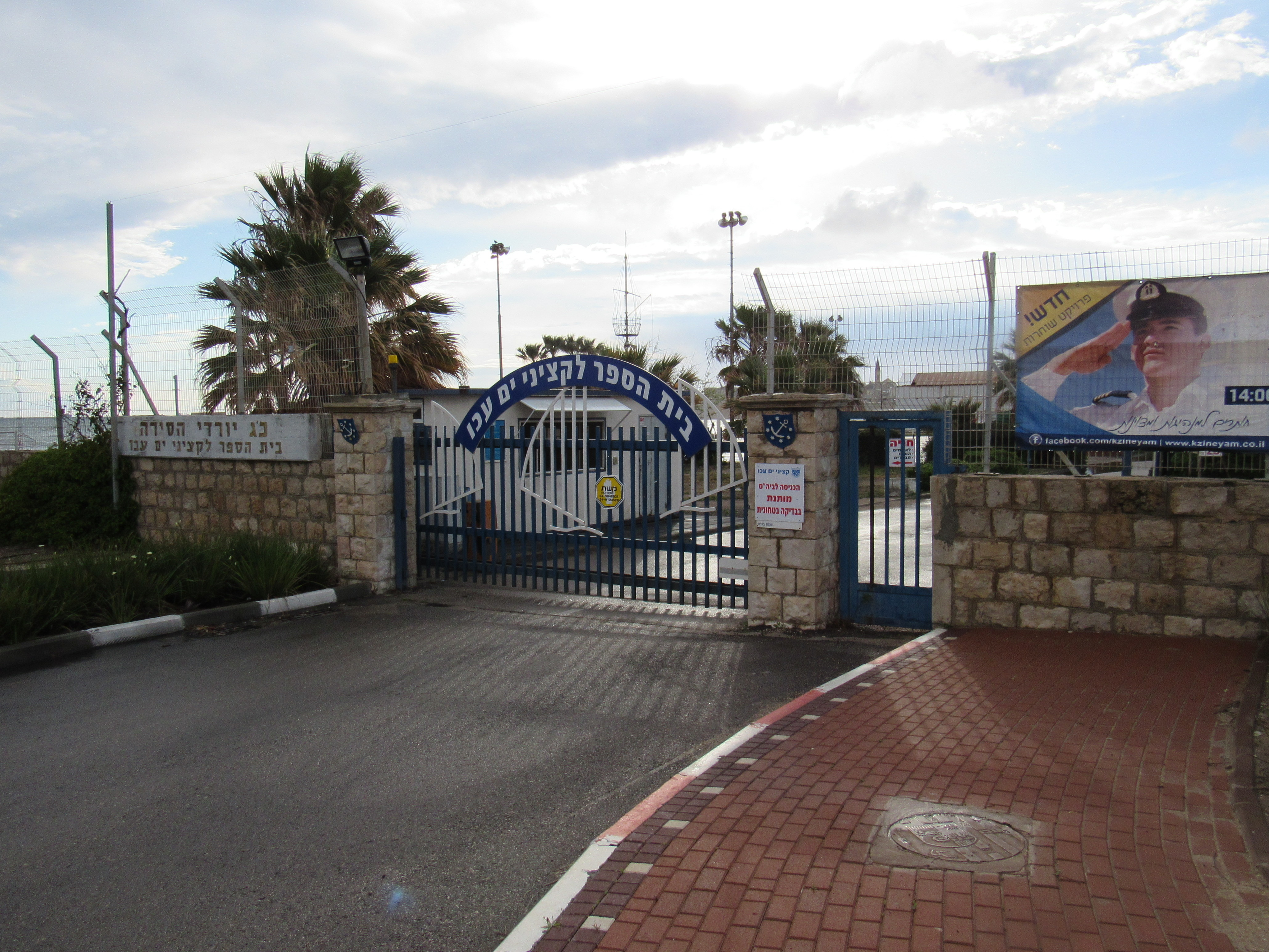 Maritime Officers School (11 April, 2015)